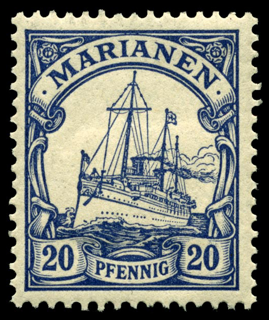 Marshall Islands 20-pfennig "yacht" stamp of 1901